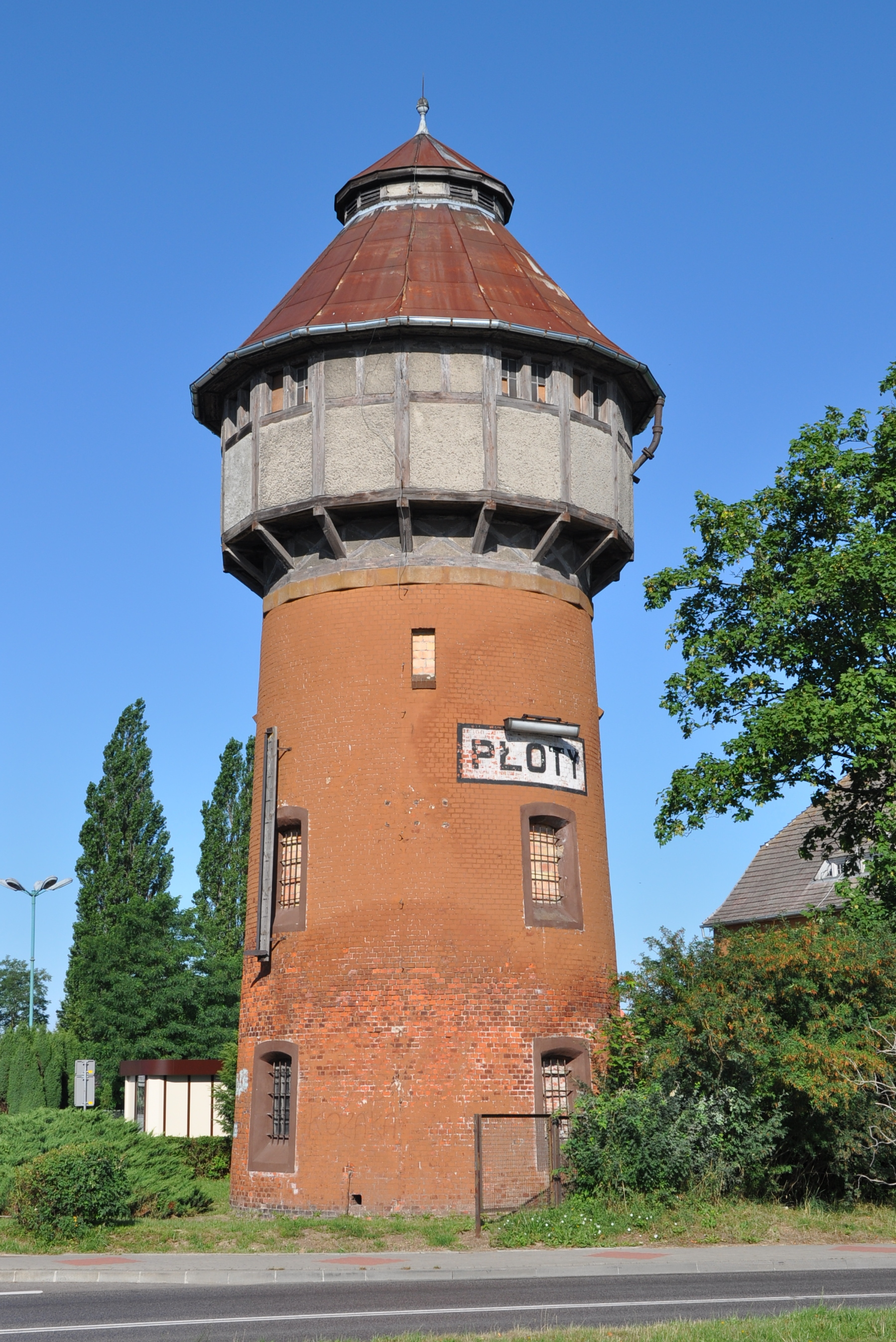 Rail water tower in Płoty, Poland